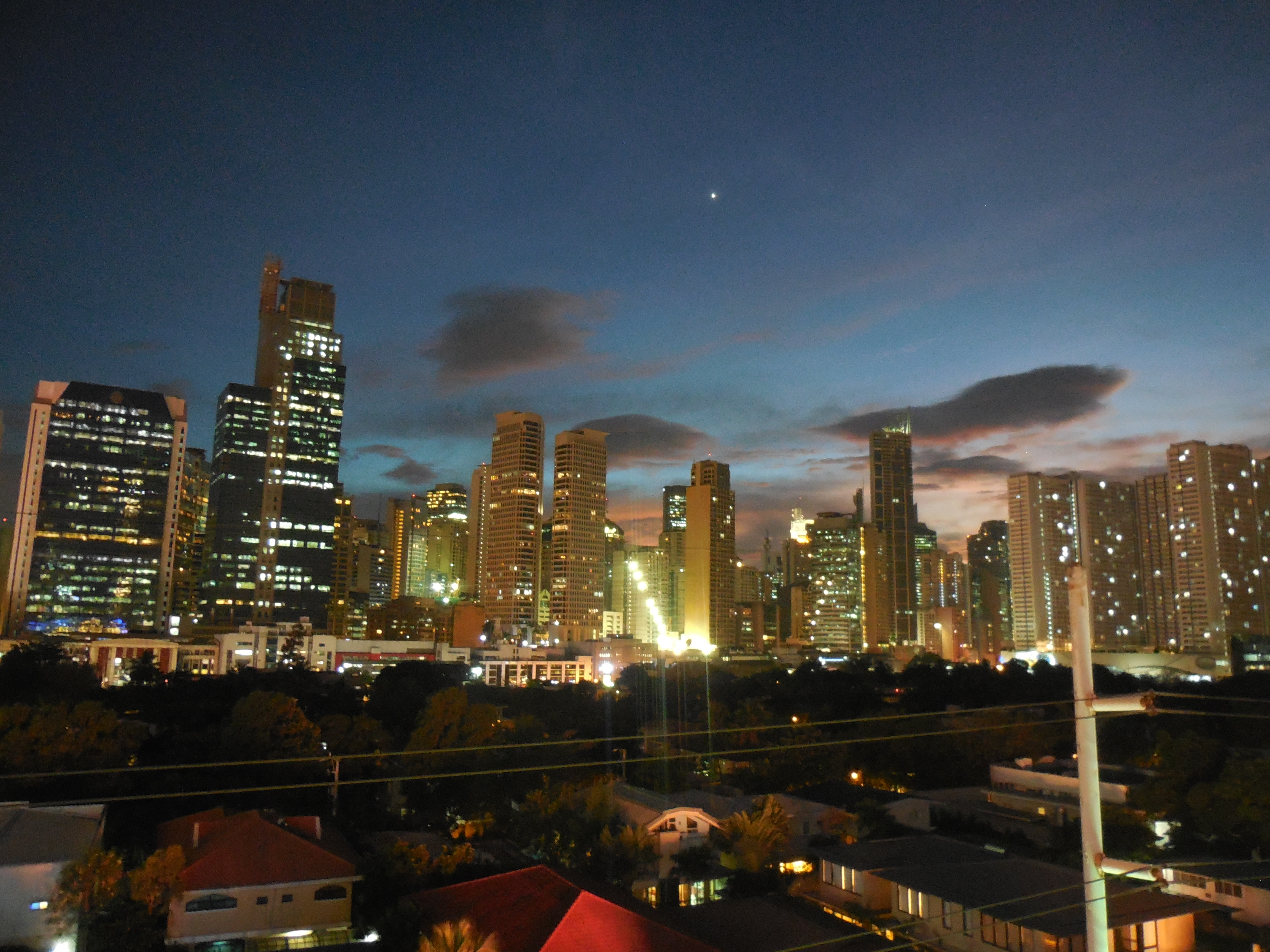 Image shows the skyline of the Makati Central Business District as viewed from the fourth floor of the Century City Mall in Kalayaan Avenue, Makati City.